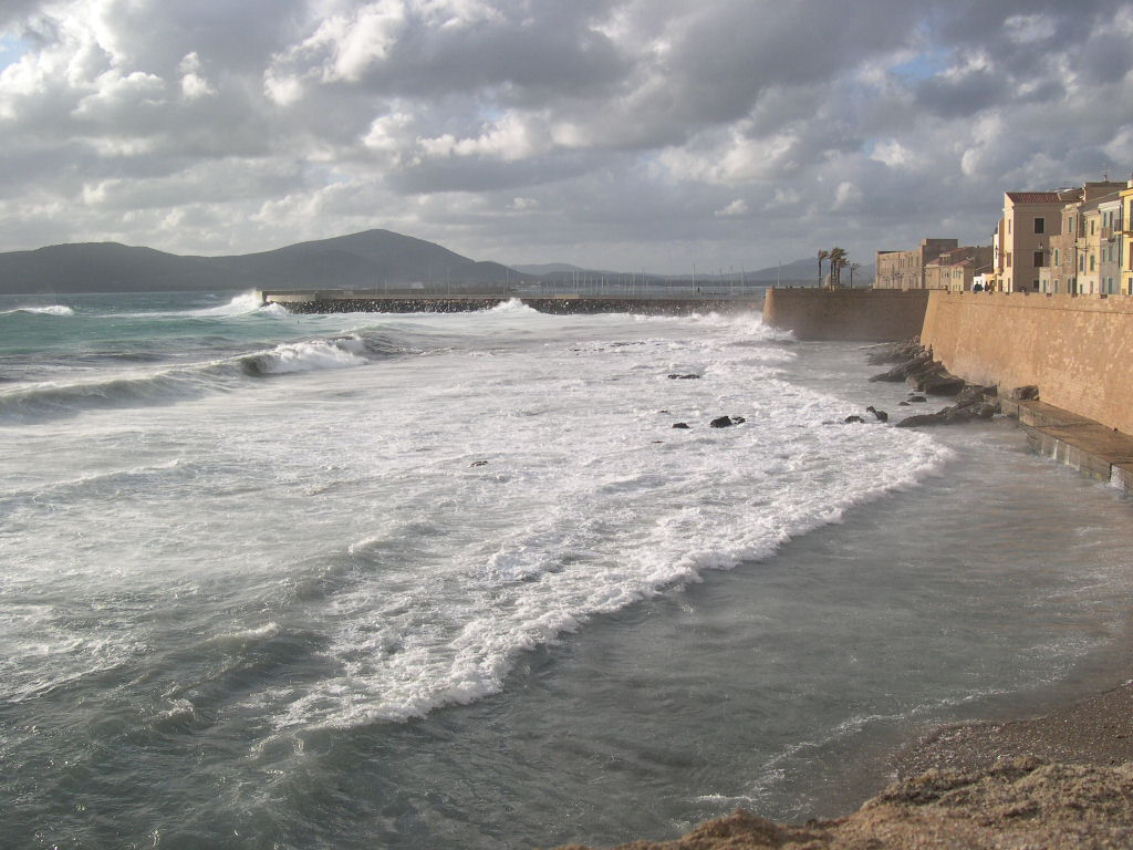 Old city wall, new sea wall: Alghero, Sardinia, Italy